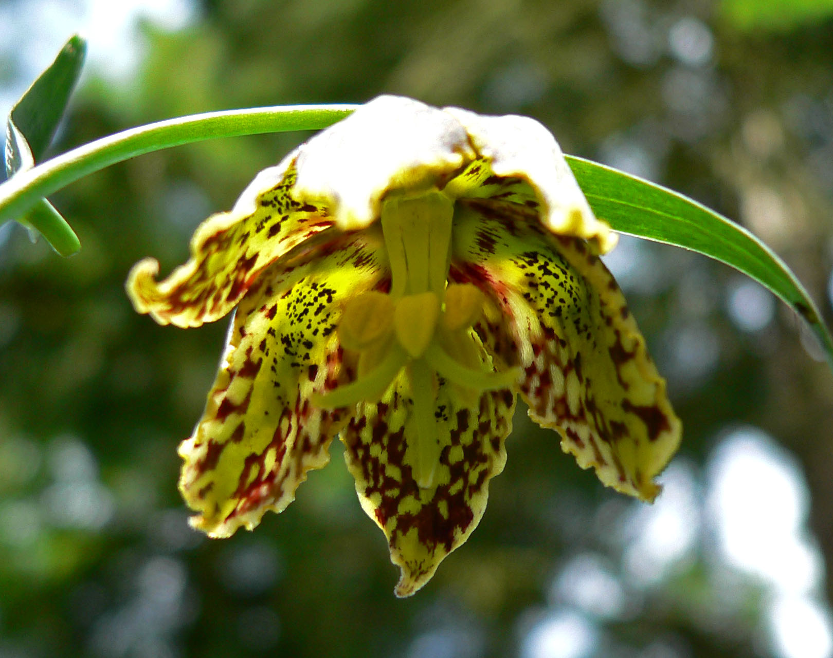 Photo of Fritillaria affinis at the Regional Parks Botanic Garden, Berkeley, California